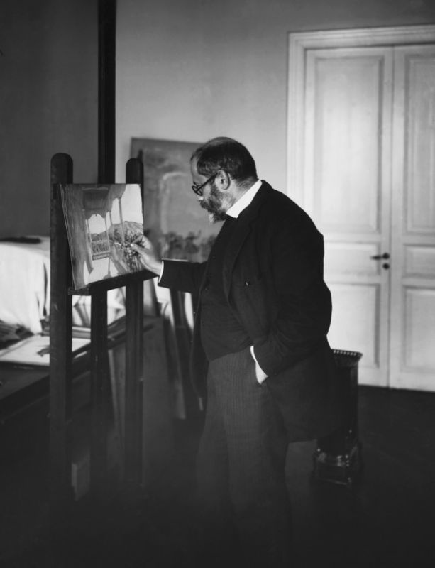 Alexander Benois at work